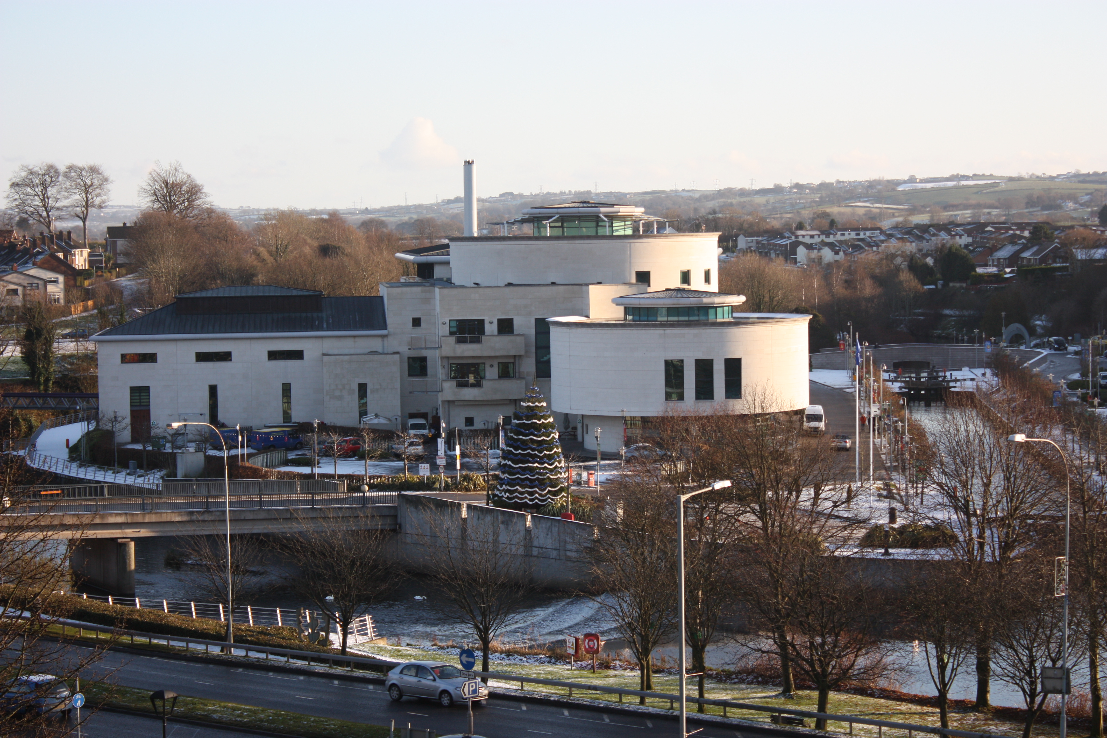 Island Civic Centre, Lisburn, County Antrim, Northern Ireland, November 2010 (viewed from Castle Gardens)